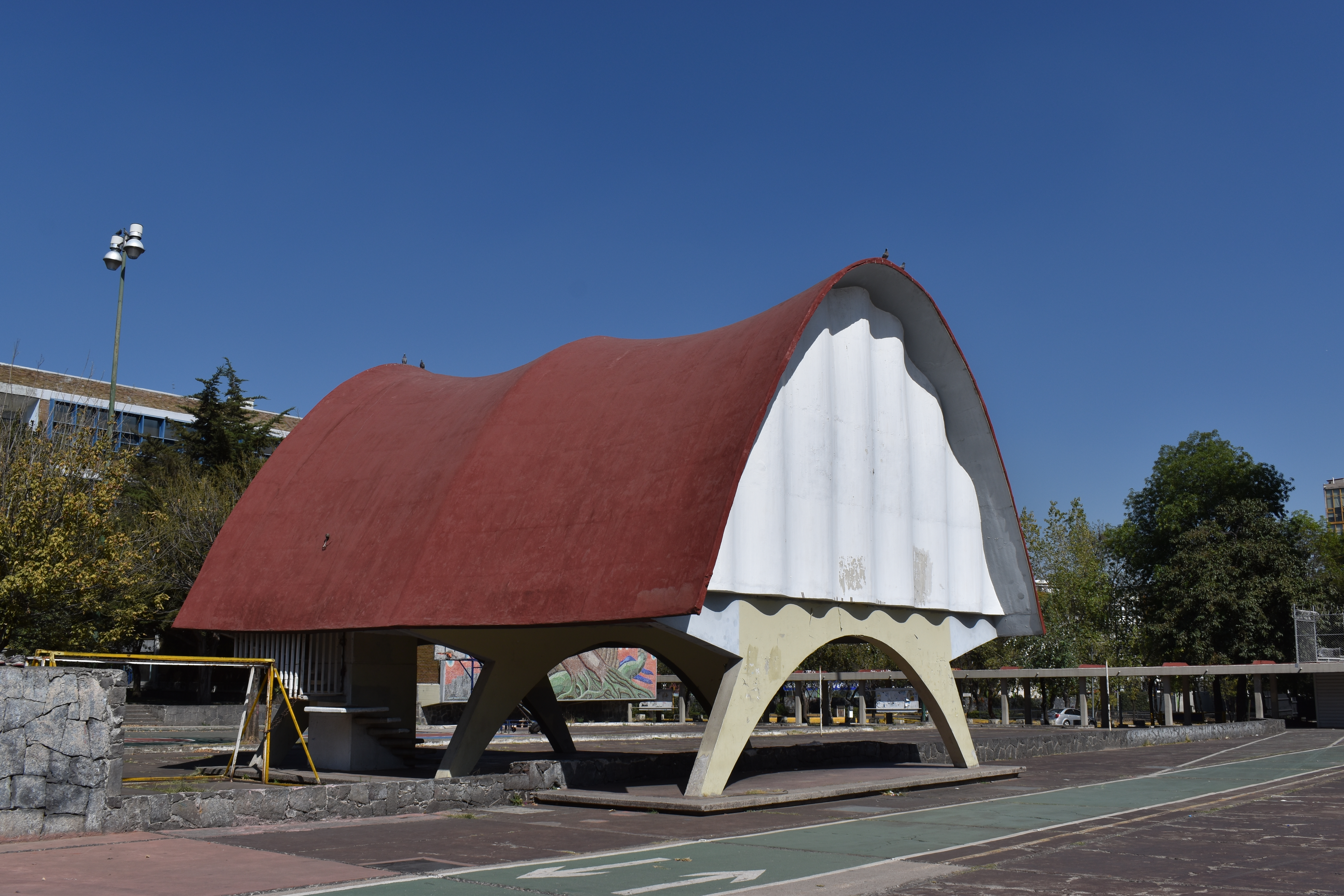 Pabellón de Rayos Cósmicos by Felix Candela at Ciudad Universitaria (UNAM), Mexico City, Mexico